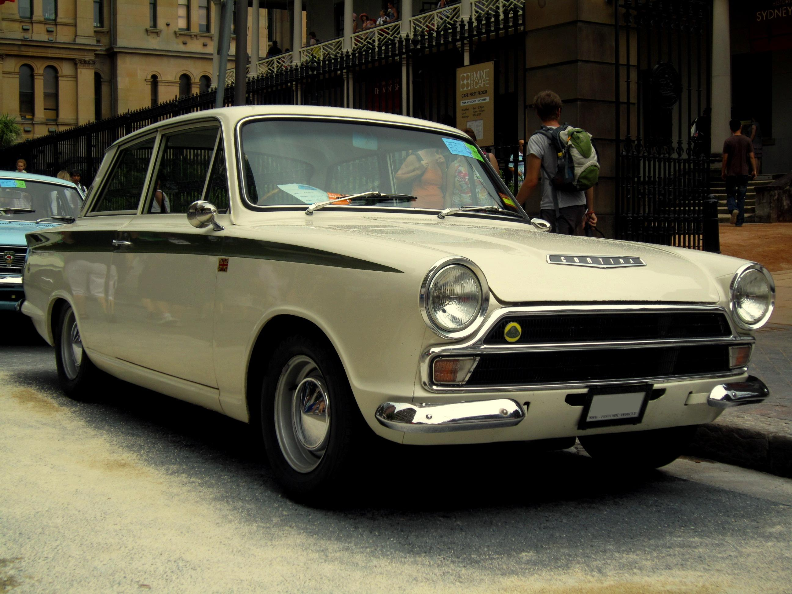 Here is just a sample of over 1000 of the highlighted classics on show, on the day.! You can check out a video preview of the NRMA Motorfest 2011 highlights here; You can also check out the latest NRMA car reviews and tests here at